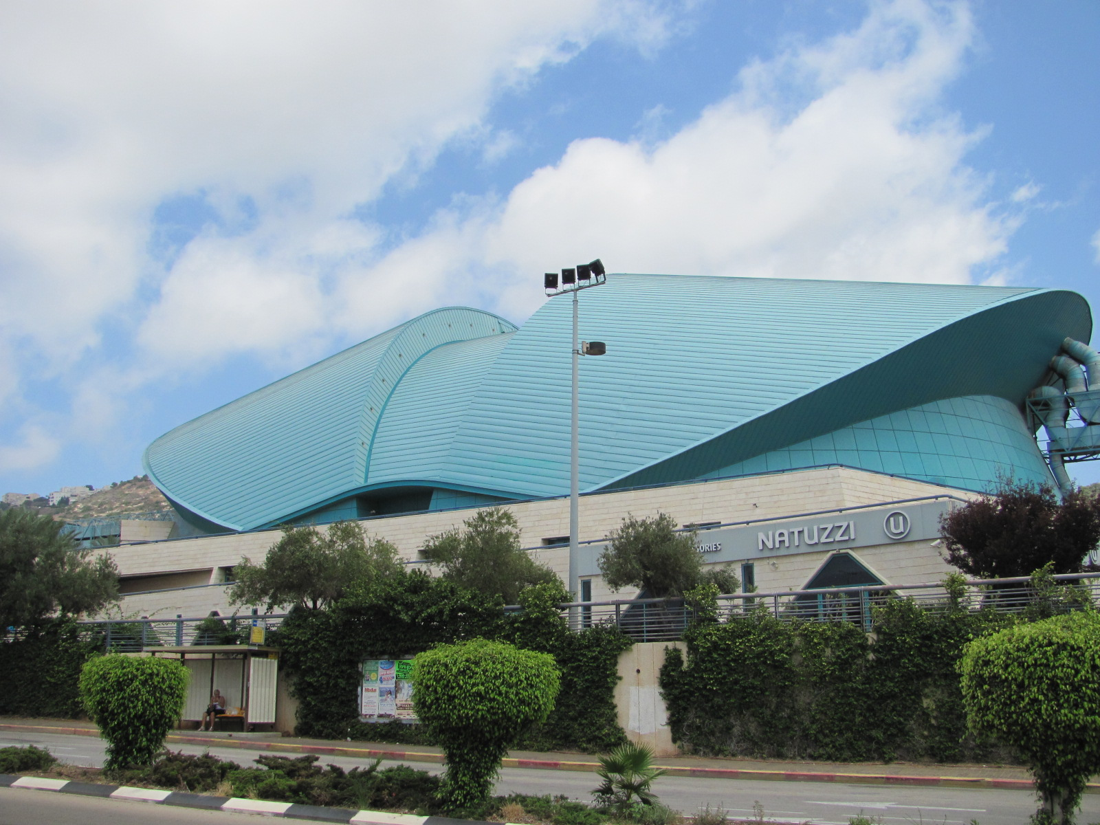 Haifa International Convention Centre in the Haifa South area, Israel.